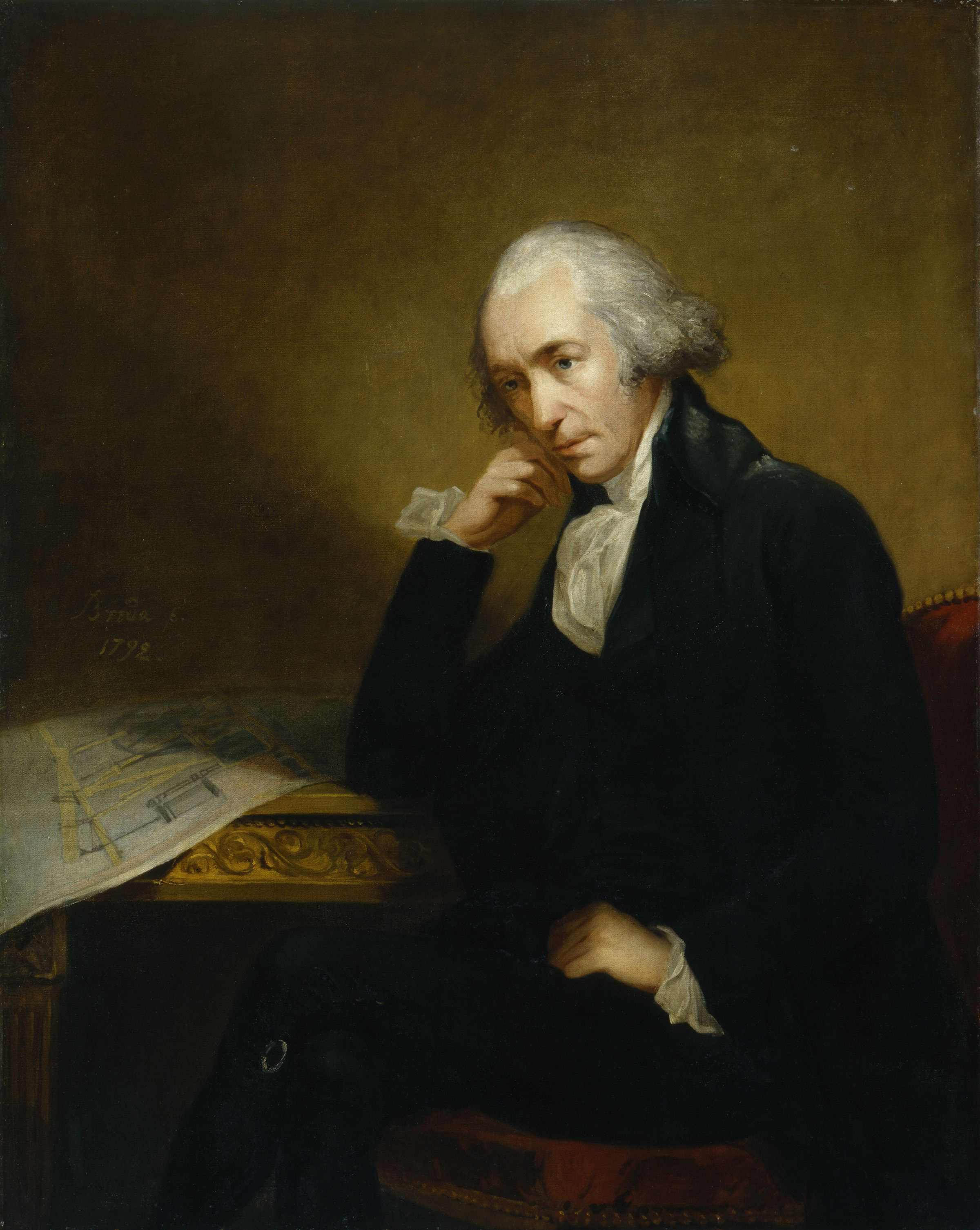 the noted Scottish inventor and mechanical engineer